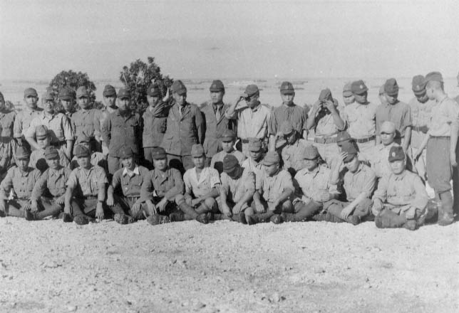 Captain Oba and his force